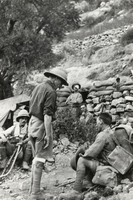 An unidentified medical officer of the 1st Battalion 4th Wiltshire Regiment checking on some of the wounded men at Wadi Ballut.